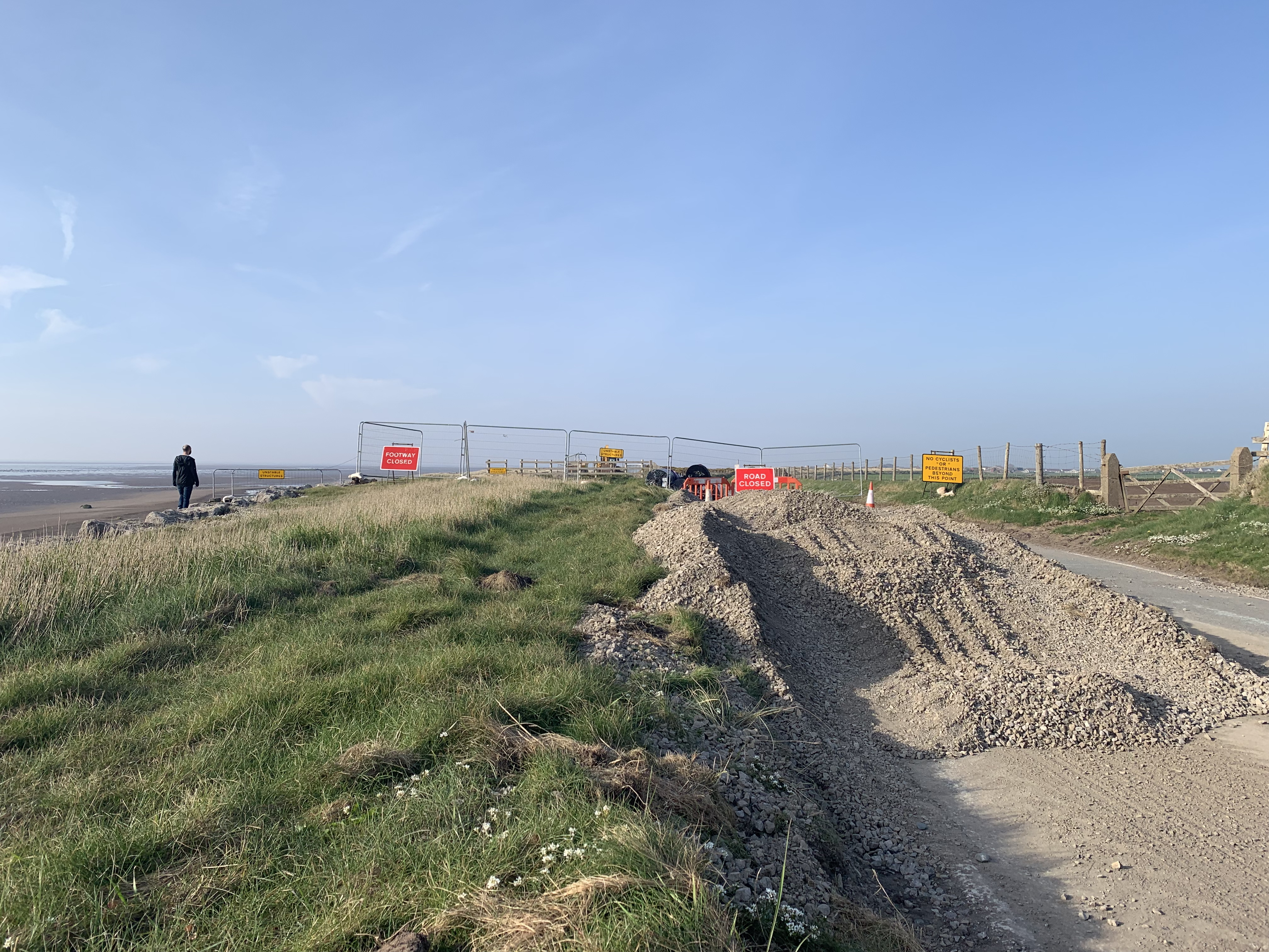 The B5300 coast road is a road between Silloth and Maryport in Cumbria, UK. This section was closed in February 2019 due to erosion. Pictured here in April 2019 before repair work had commenced, with a barrier blocking the entire road and the bank to the left. Gravel covers part of one lane of the road, to be used during the repair work.